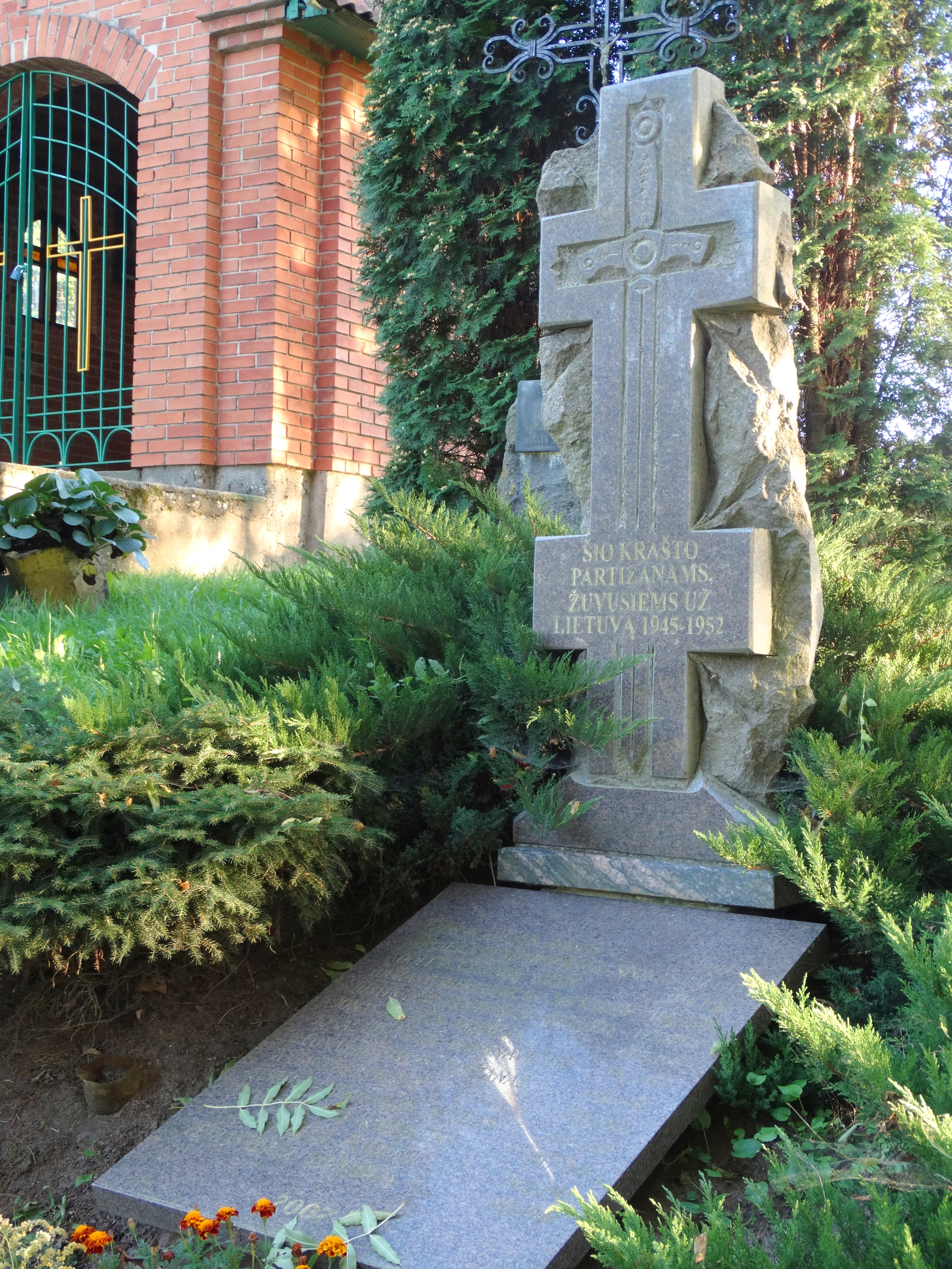 Monument to the victims (Lithuanian partisans) in Deivoniškiai, Kalvarija municipality